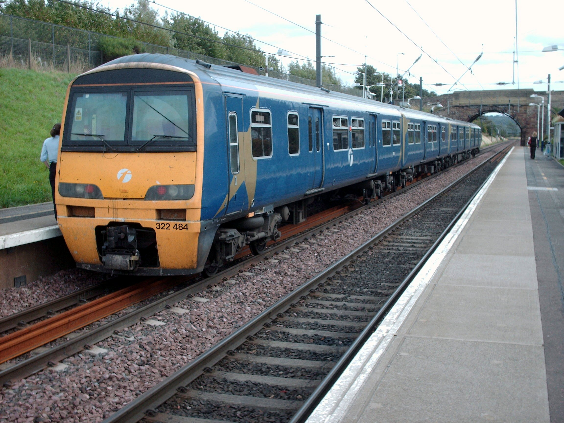 Musselburgh railway station, East Lothian, Scotland. 322484 operated by First Scotrail, still in North Western Trains livery.